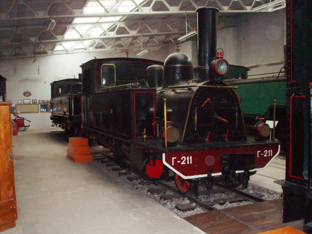 GREECE: Couillet 2-6-0T metre gauge steam locomotive Γ-211 (1890). Preserved at the Railway Museum of Athens.